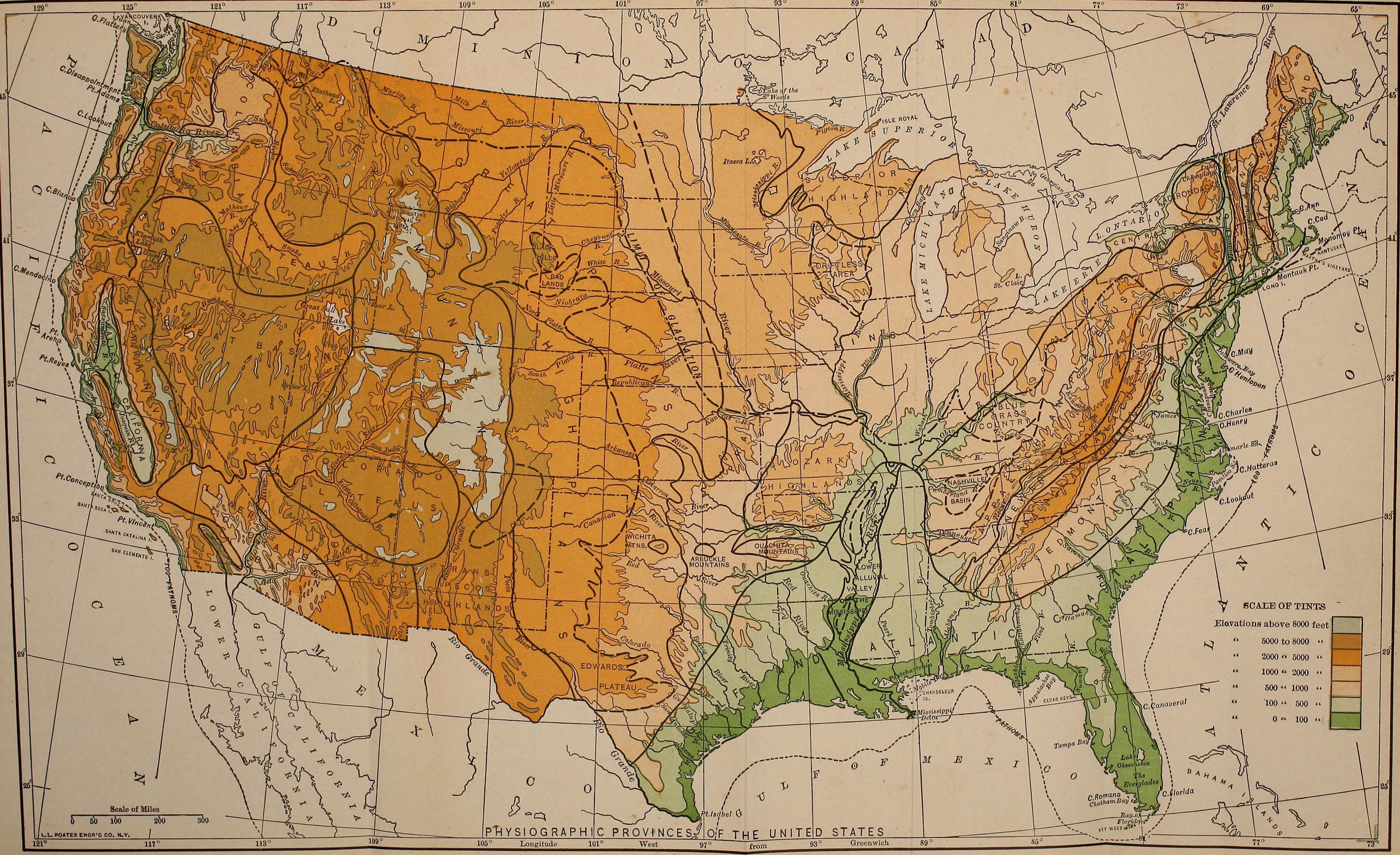 Title: Forest physiography; physiography of the United States and principles of soils in relation to forestry Year: 1911 (1910s) Authors: Bowman, Isaiah, 1878-1950 Subjects: Physical geography Forests and forestry Soils Publisher: New York, J. Wiley & sons (etc., etc.) View Book Page: Book Viewer About This Book: Catalog Entry View All Images: All Images From Book Click here to view book online to see this illustration in context in a browseable online version of this book. Text Appearing Before Image: PLATE IV Text Appearing After Image: Plate IV. — Physiographic Map of the United States. CHAPTER XXXII APPALACHIAN PLATEAUS The Appalachian Plateaus consist of a number of subdivisions of thefirst rank: the southern or Cumberland district; the central district in-cluding the so-called mountains of eastern Kentucky and WestVirginia; the northern district, the Allegheny Plateau of western Penn-sylvania and southern New York; and the extreme northeastern por-tion — a special category— including the Catskill Mountains. TheCatskills and the plateau of West Virginia and Kentucky are the loftiestmembers of the series and have truly mountainous relief and propor-tions. The Allegheny Plateau has been dissected into a systemlessmaze of spurs by the almost infinite branches of the deeply intrenchedstreams. The high and rugged eastern border region of the AlleghenyPlateau is also known as the Allegheny Mountains, a term which in-cludes not only the Allegheny Front but also the rough uplands imme-diately west of it, the norther